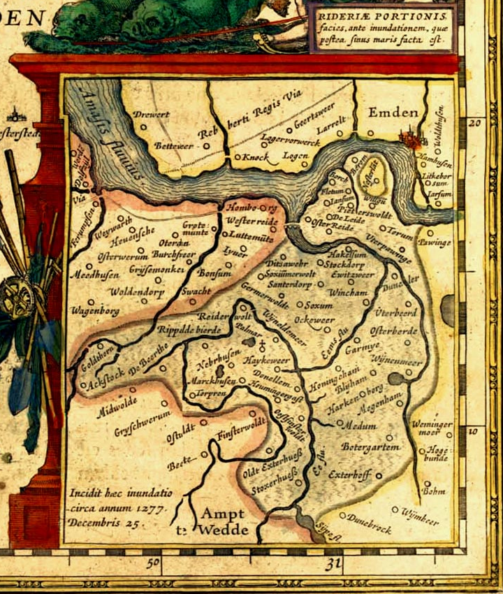 Old map of the Rheiderland in East Frisia. Detail from the Ubbo Emmius map.